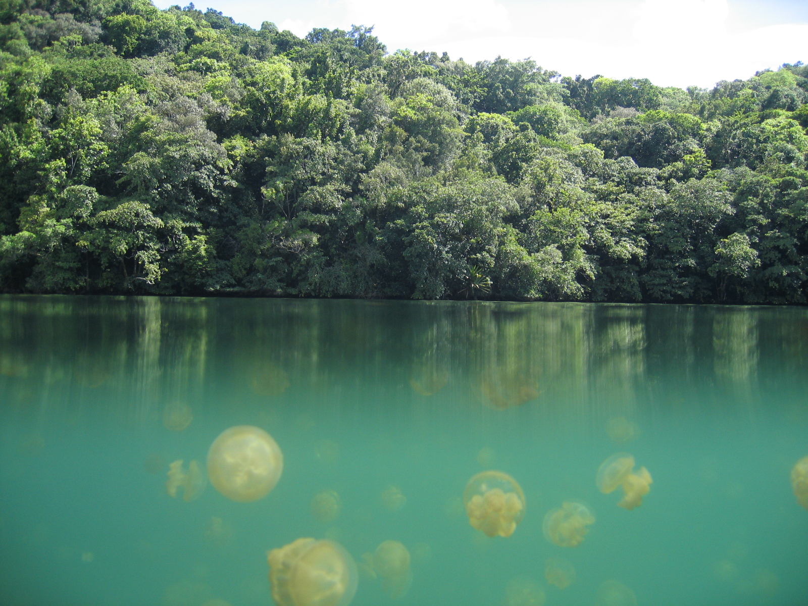 A lake with Jellyfish in Palau